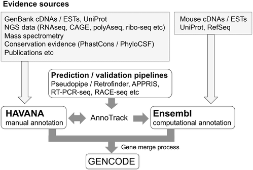 The scheme of GENCODE annotation pipeline. This figure is made by Jonathan M. Mudge and Jennifer Harrow in the original article: Mudge, J.M. & Harrow, J. Mamm Genome (2015) 26: 366.